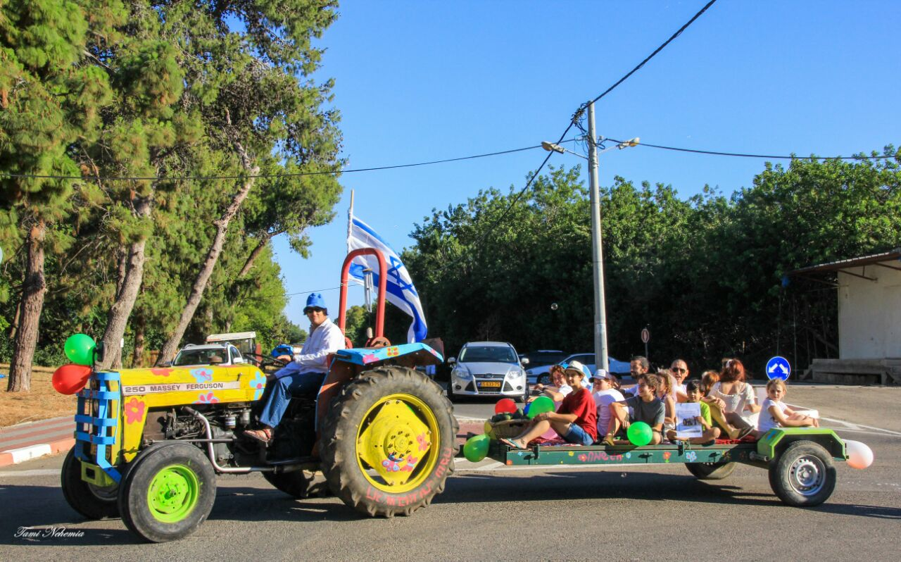 In a Shavuot holiday parade of agricultural vehicles at Moshav Betzet, Israel